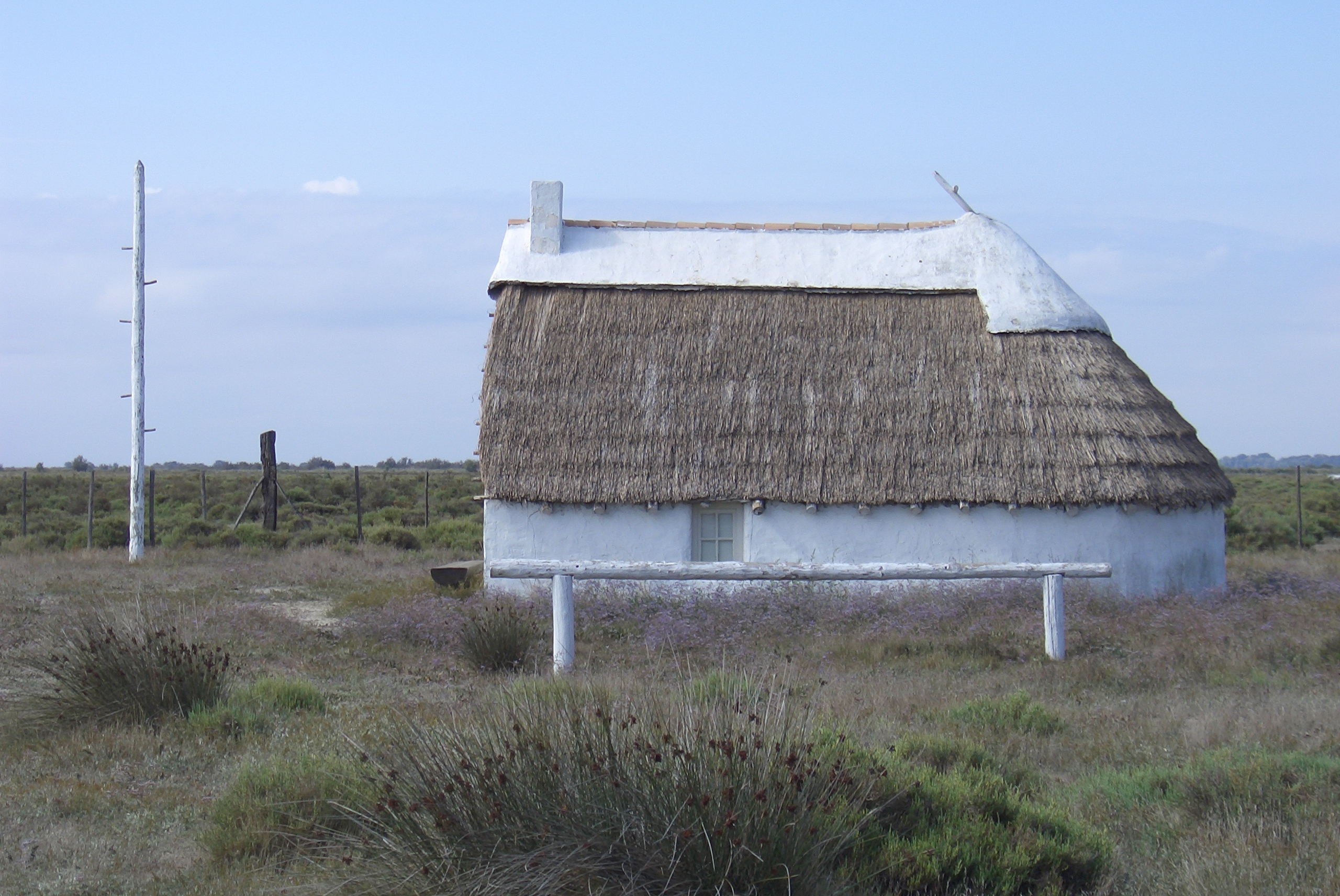 Picture of the Home of a Gardian